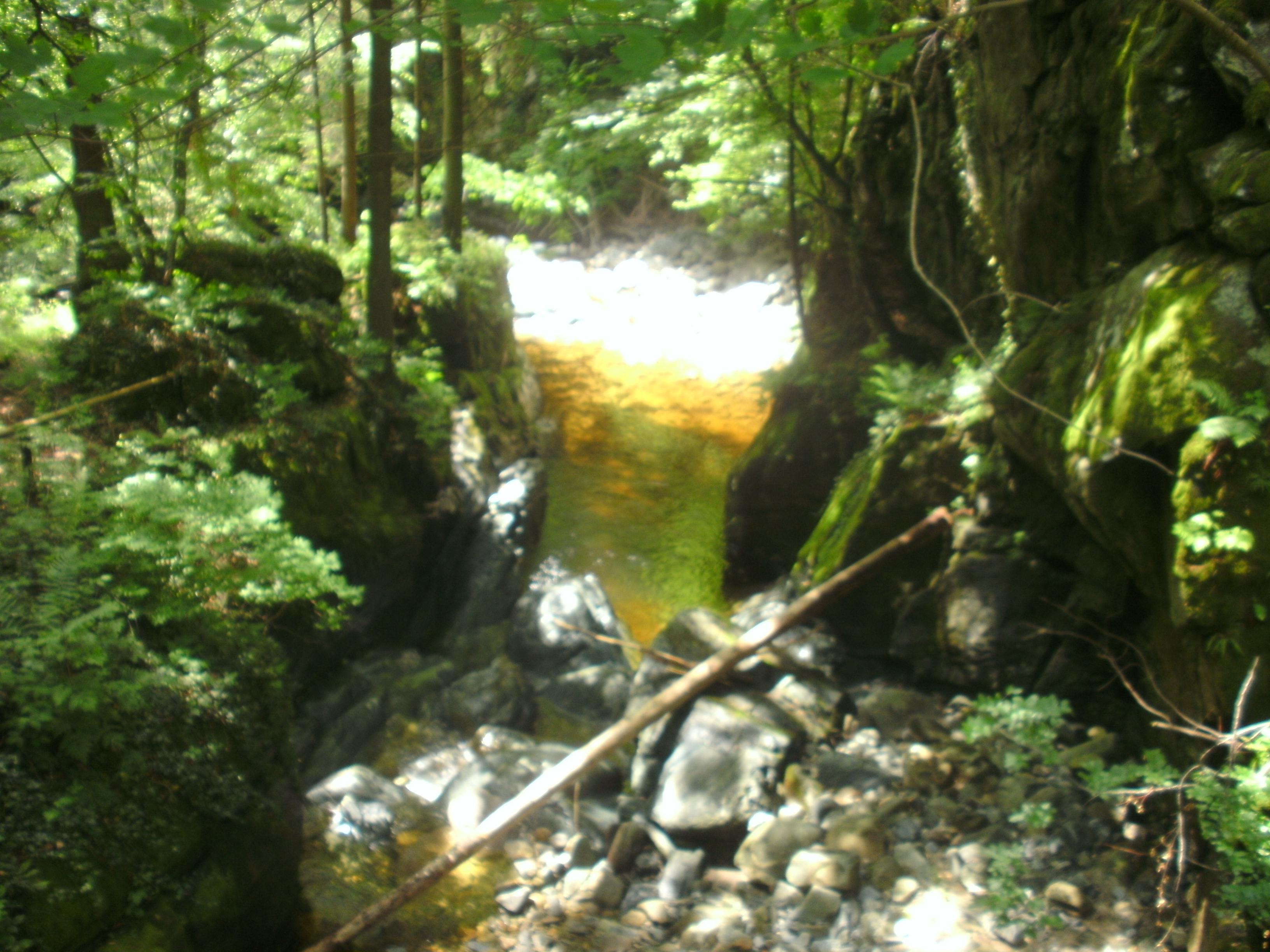 Oplotniški vintgar gorge